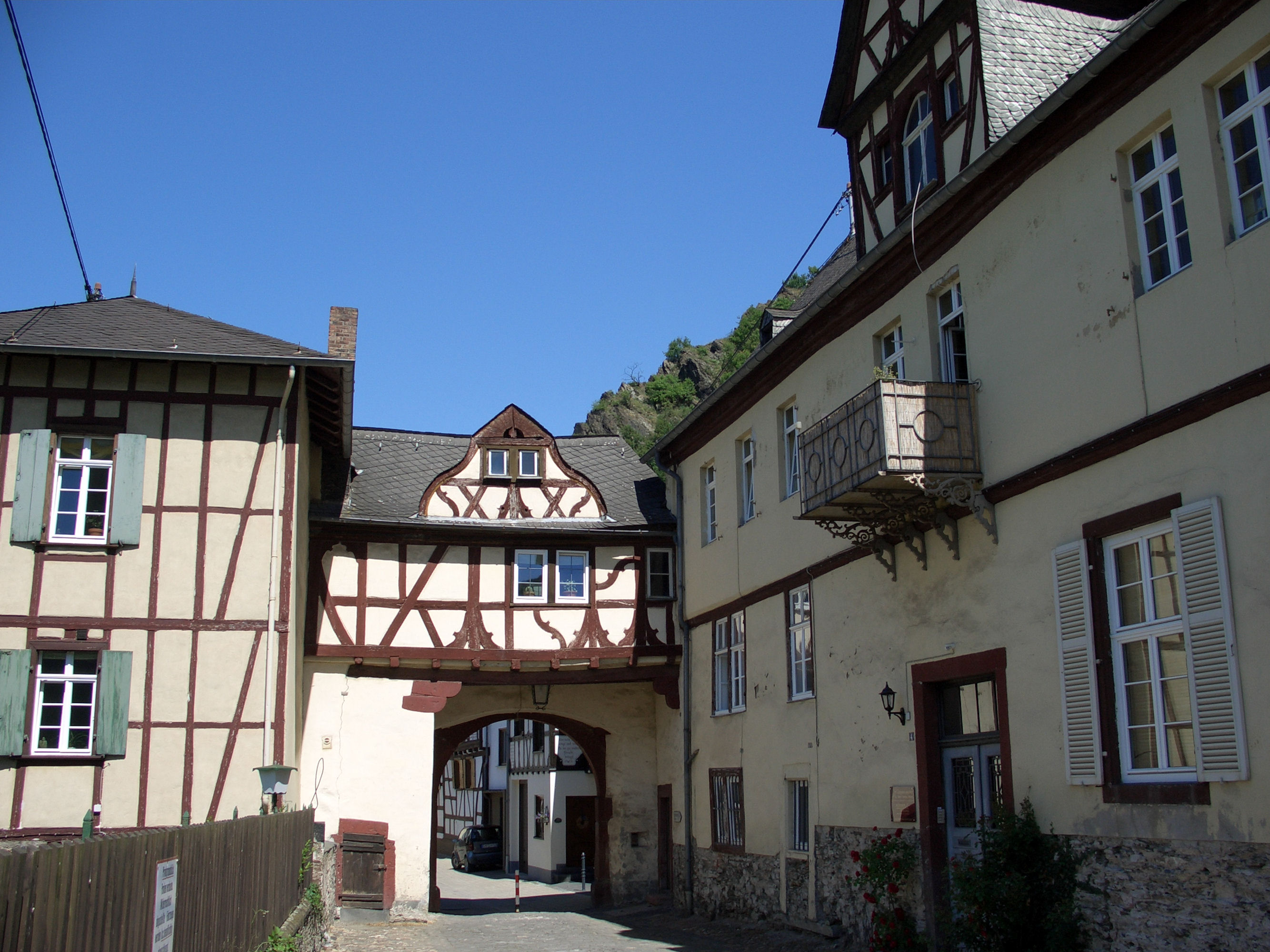 Schloss Philippsburg in Braubach